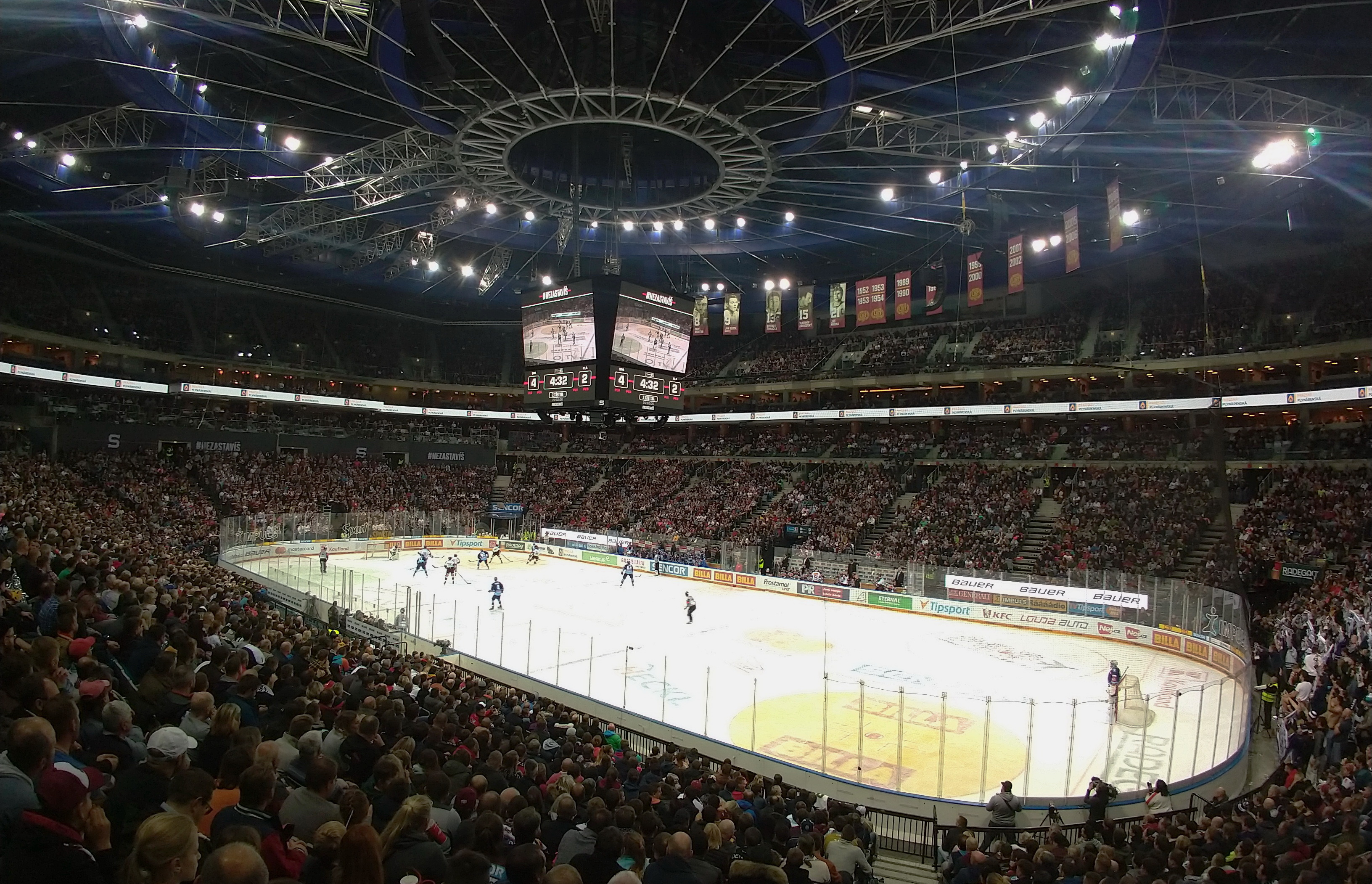 Sparta-Kladno O2 Arena Prague, 13.11.2019. Indoor Extraliga record: 17,220 spectators.